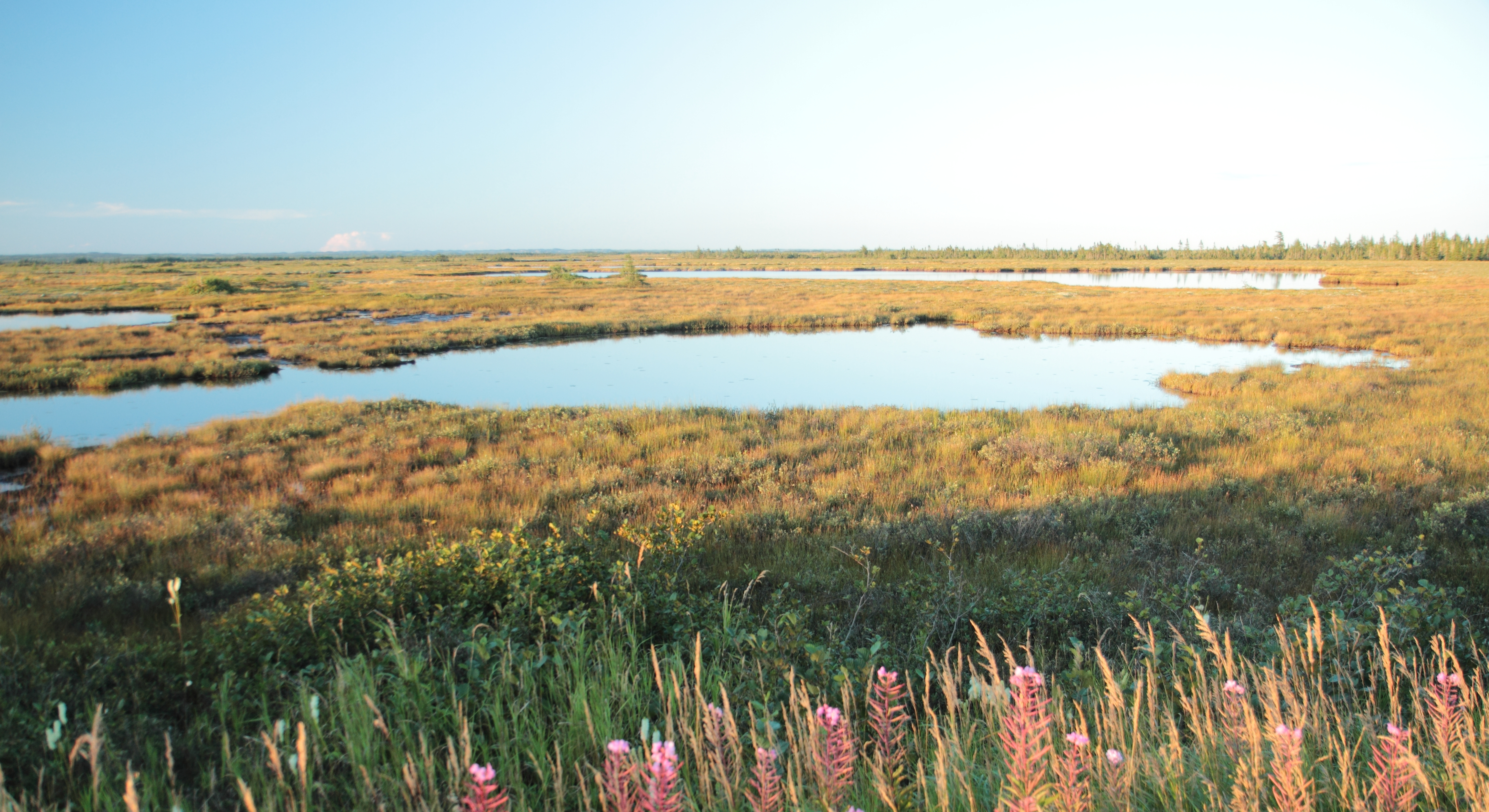 Bog, Havre-Saint-Pierre, Quebec, Canada